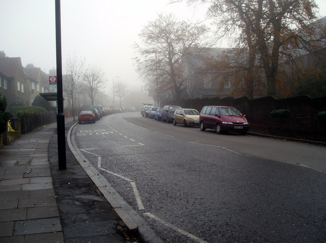 A misty day at Central Hill, Upper Norwood, South London, UK. To the right of the line of parked cars is the chapel of Virgo Fidelis Roman Catholic Girls' School. A misty day at Central Hill, Upper Norwood with views of Virgo Fidelis Convent Senior School and the Church of the Faithful Virgin to the right.